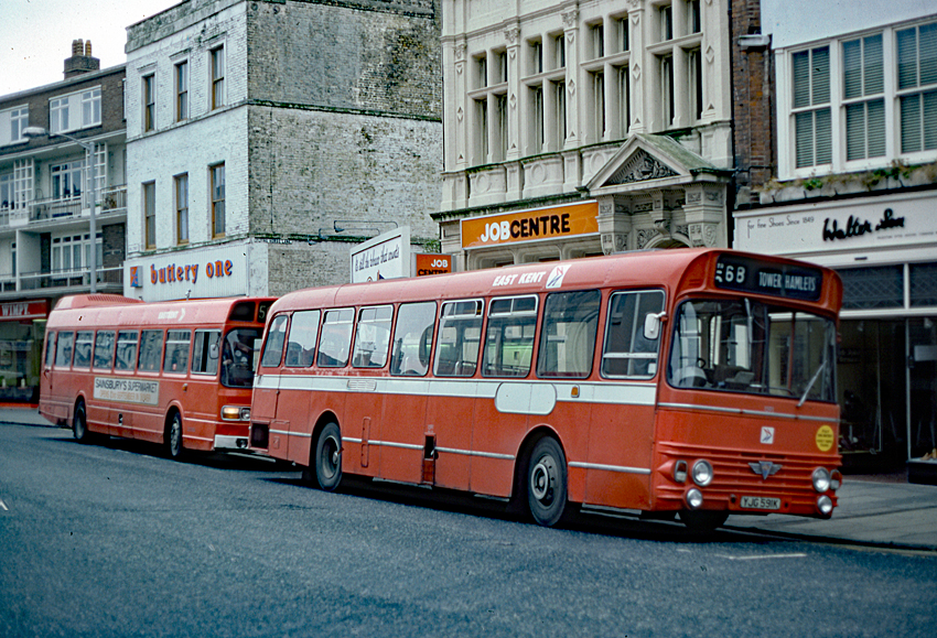 East Kent Leyland National and AEC Swift in Dover, 1980. Both in NBC livery. Scanned from a Kodachrome 35mm slide.